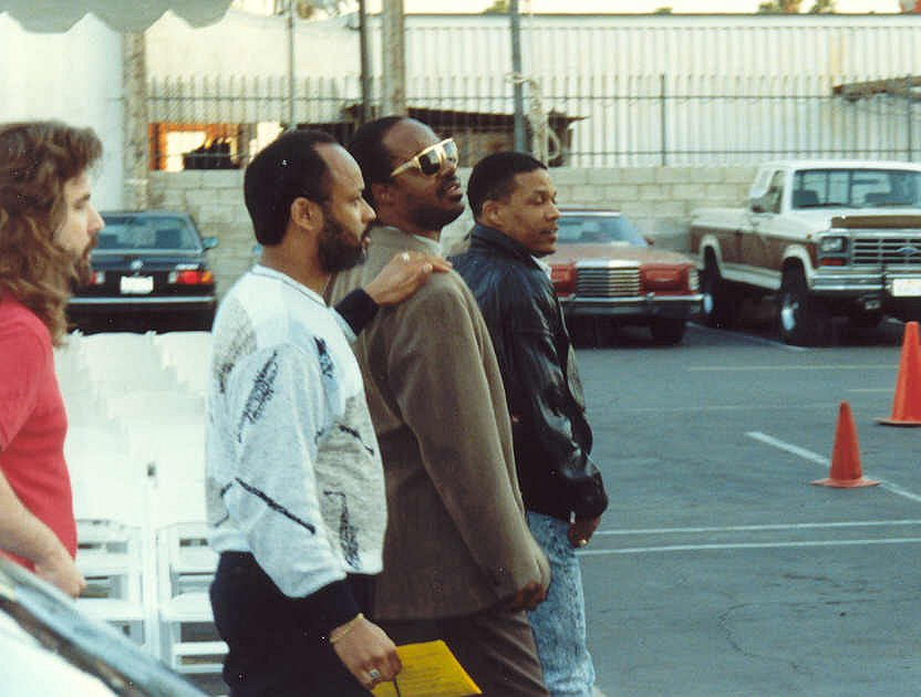 Stevie Wonder at Grammy rehearsal 2/20/90 - Permission granted to copy, publish, broadcast or post but please credit "photo by Alan Light" if you can